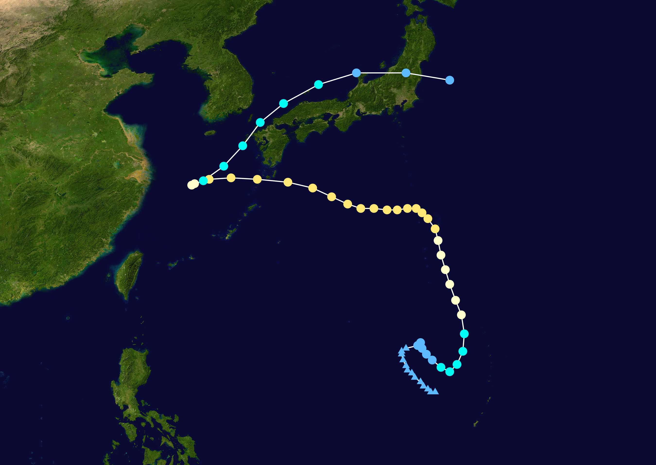 Typhoon Odessa 1985 track. Uses the color scheme from the Saffir-Simpson Hurricane Scale.